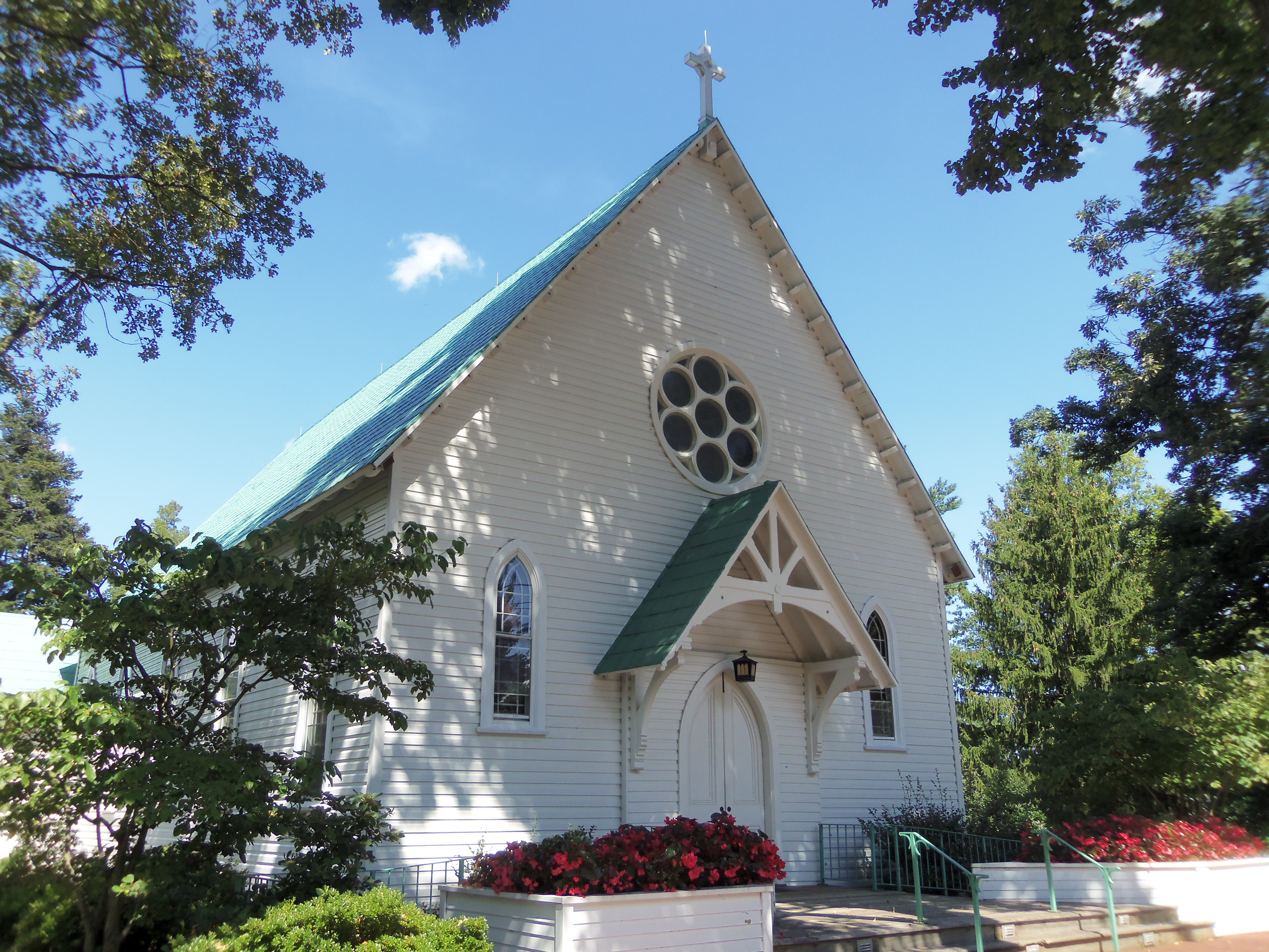 The former Saint Rose of Lima Catholic Church in Gaithersburg, Maryland. It is on the grounds of the present church, which is next door.